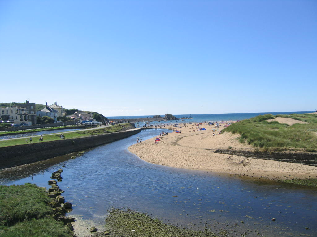 This image was taken in August 2005 by myself. It shows one of the beaches in Bude. On the left of the picture is the Bude Canal coming to an end as it reaches the sea lock.